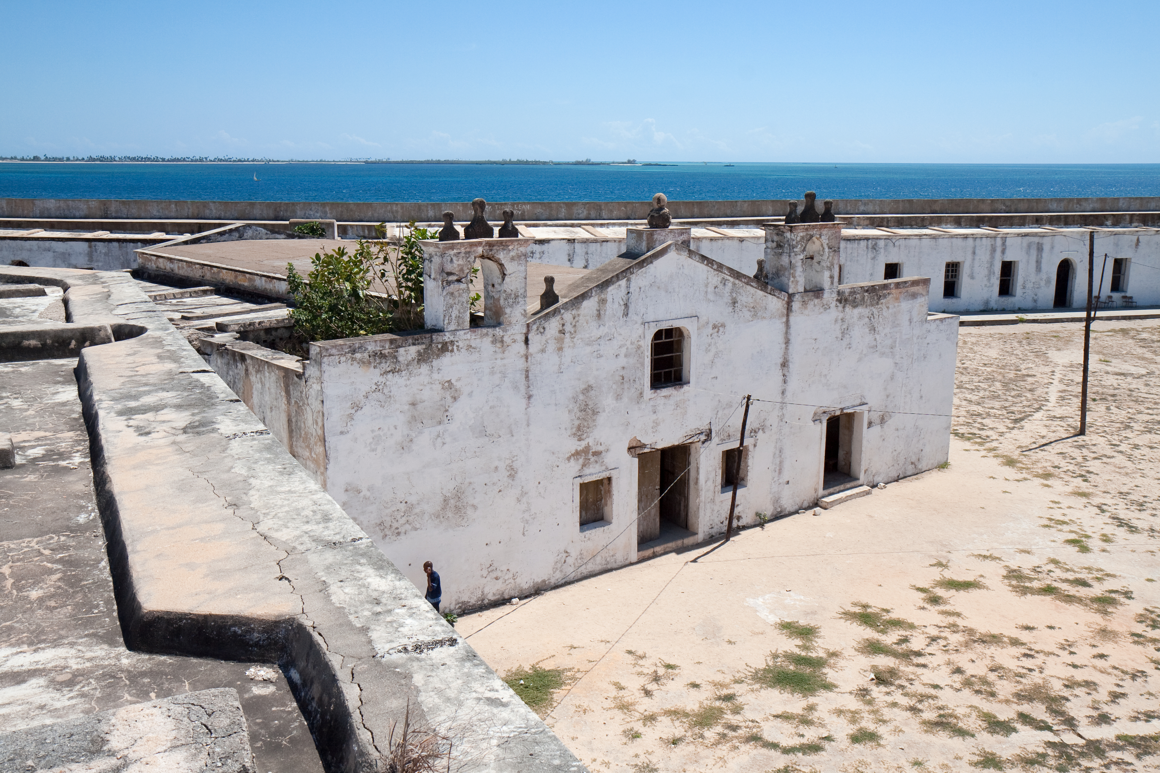 Looking inside Fort of Sao Sebastiao.